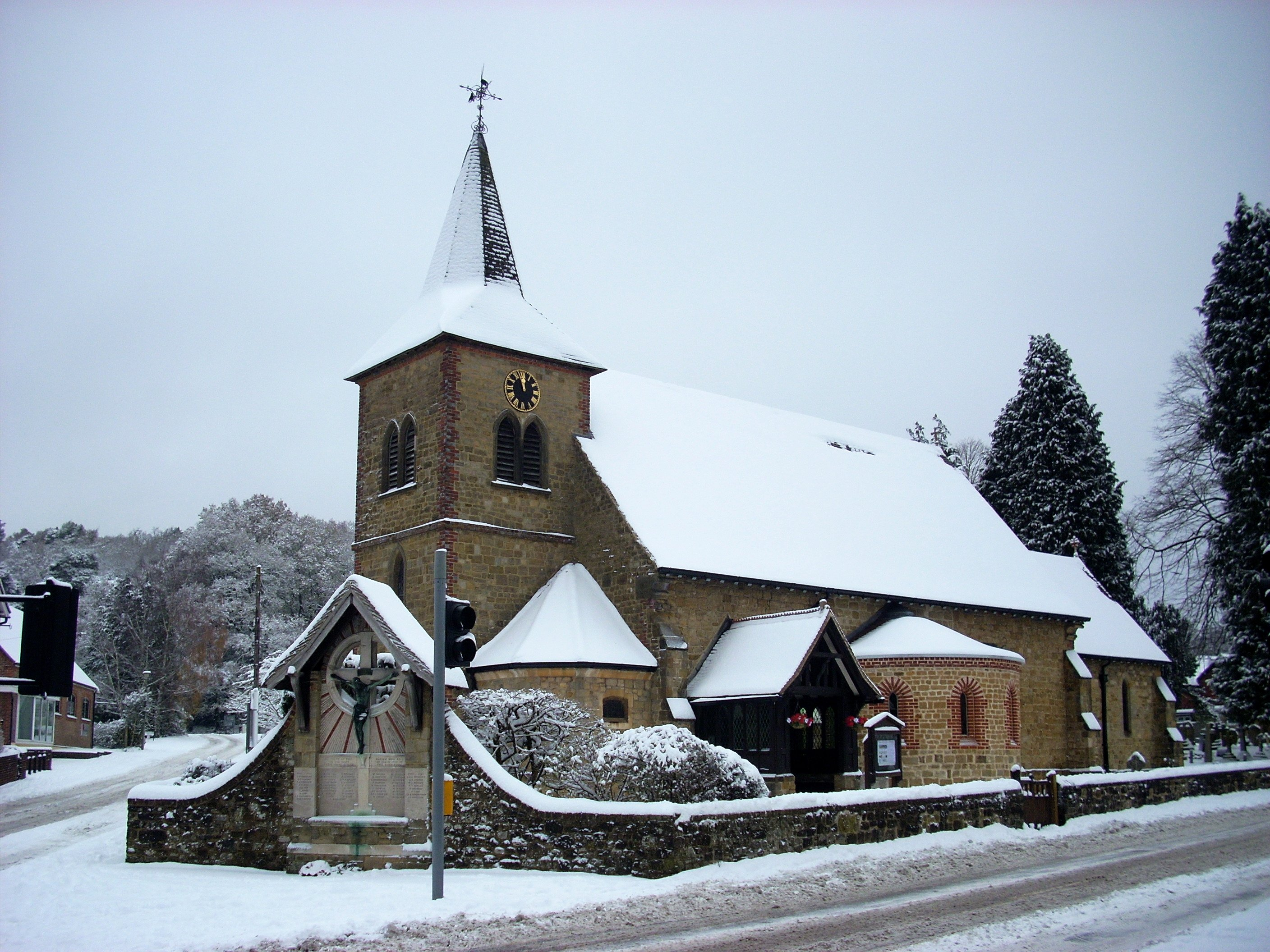 St Stephen's parish church, Shottermill, Haslemere, Surrey, seen from the south in snow